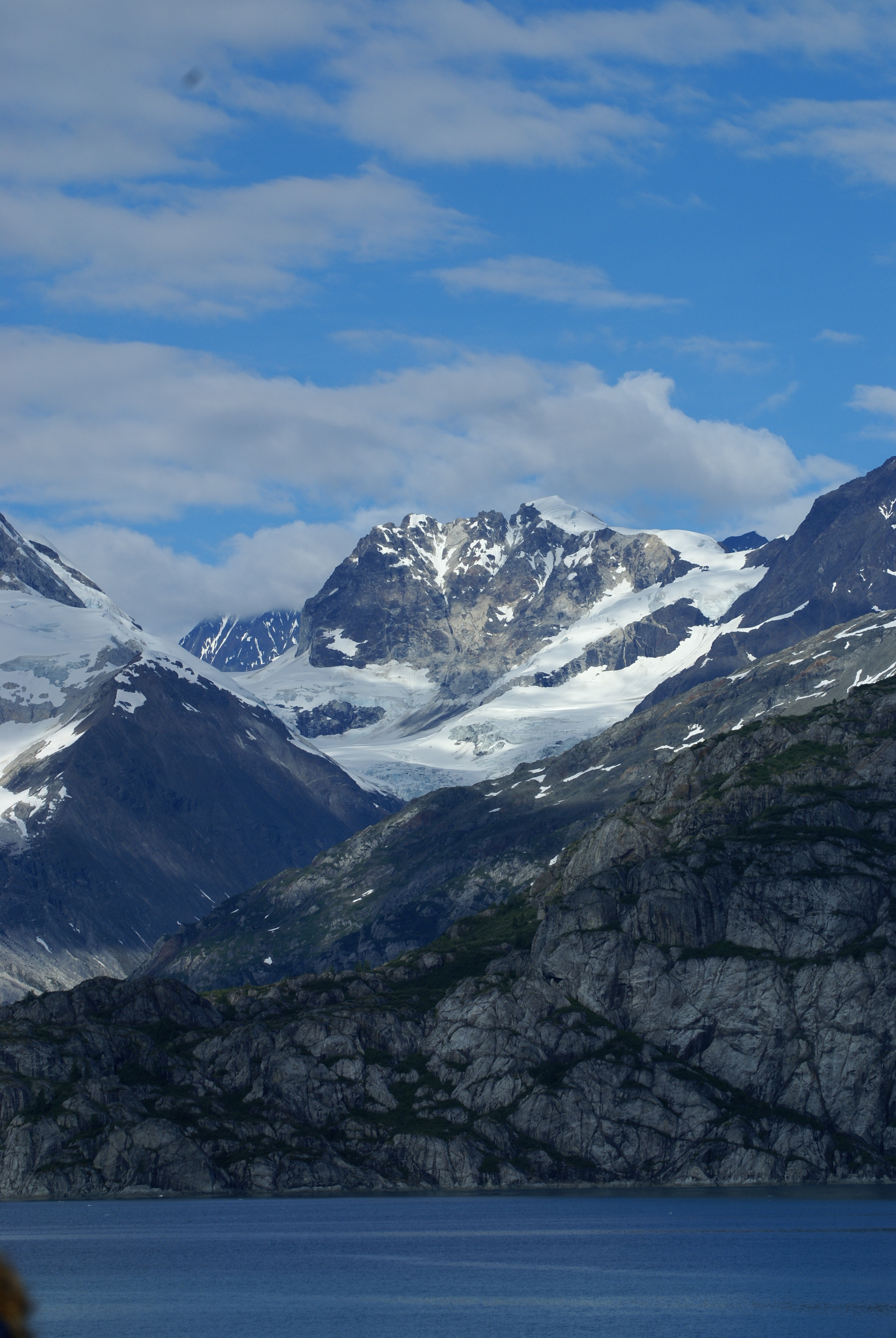 Topeka Glacier, Glacier Bay National Park